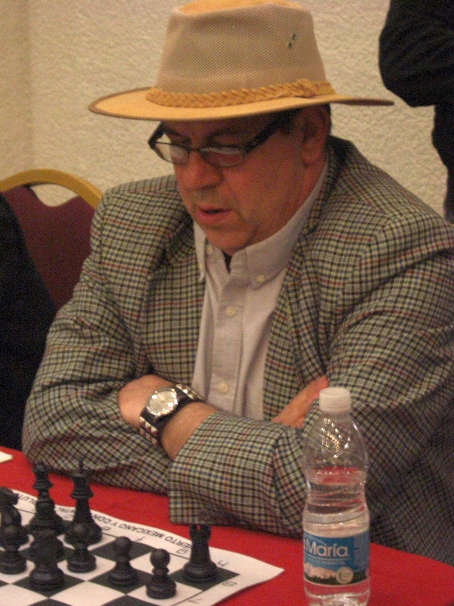 Alexander Yermolinsky during the American Continental Chess Championship in Toluca (Mexico), April 2011